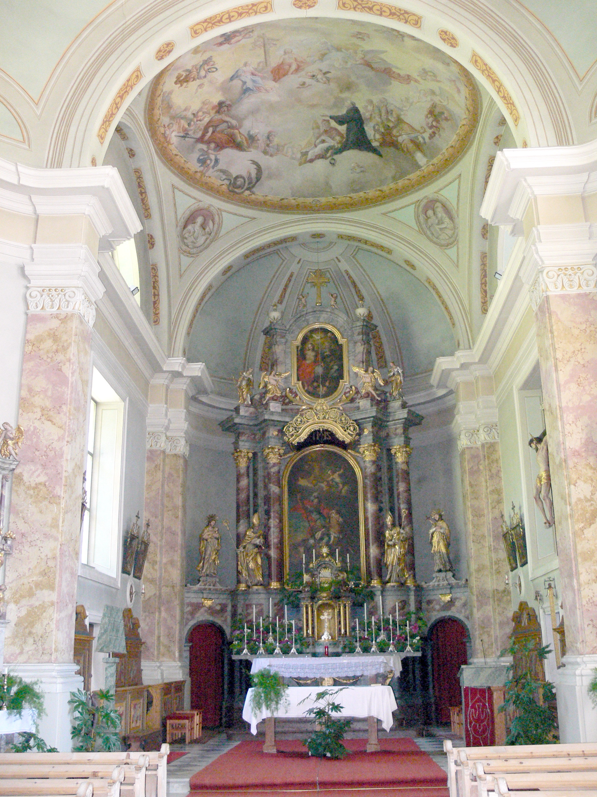 Antholz Mittertal - parish church of Saint George. Interior with high altar( 1795 )